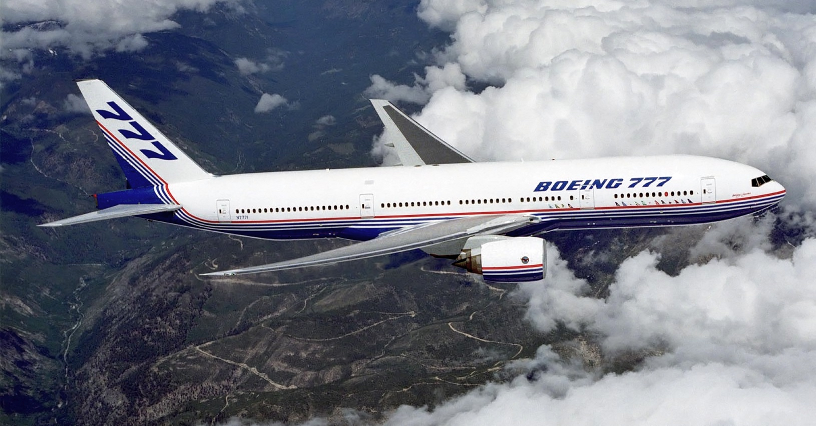 Boeing 777-200 (N7771) flying above the clouds, painted in the former Boeing livery.